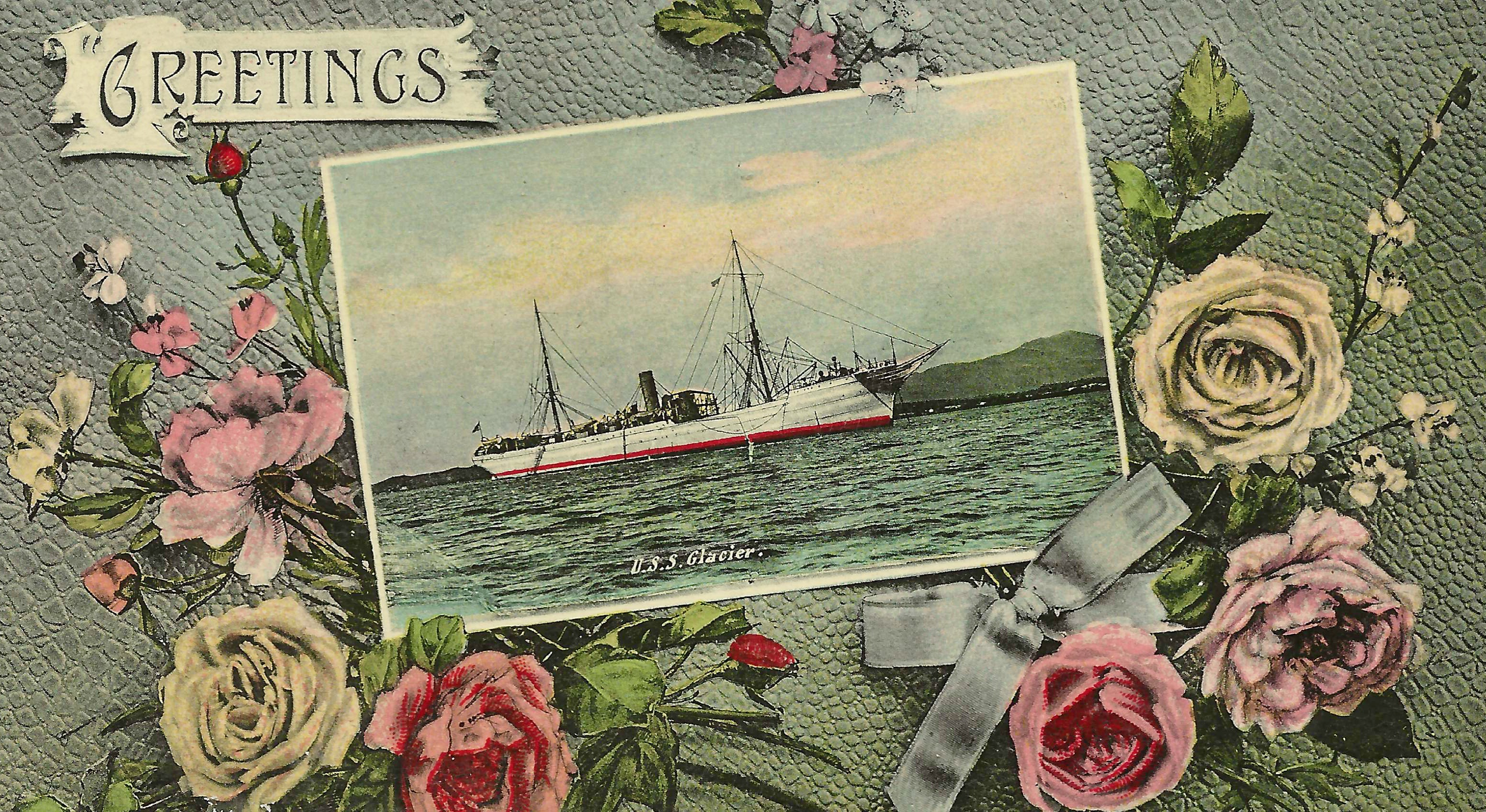 This is a picture of the USS Glacier AF-4 on a 1908 postcard.